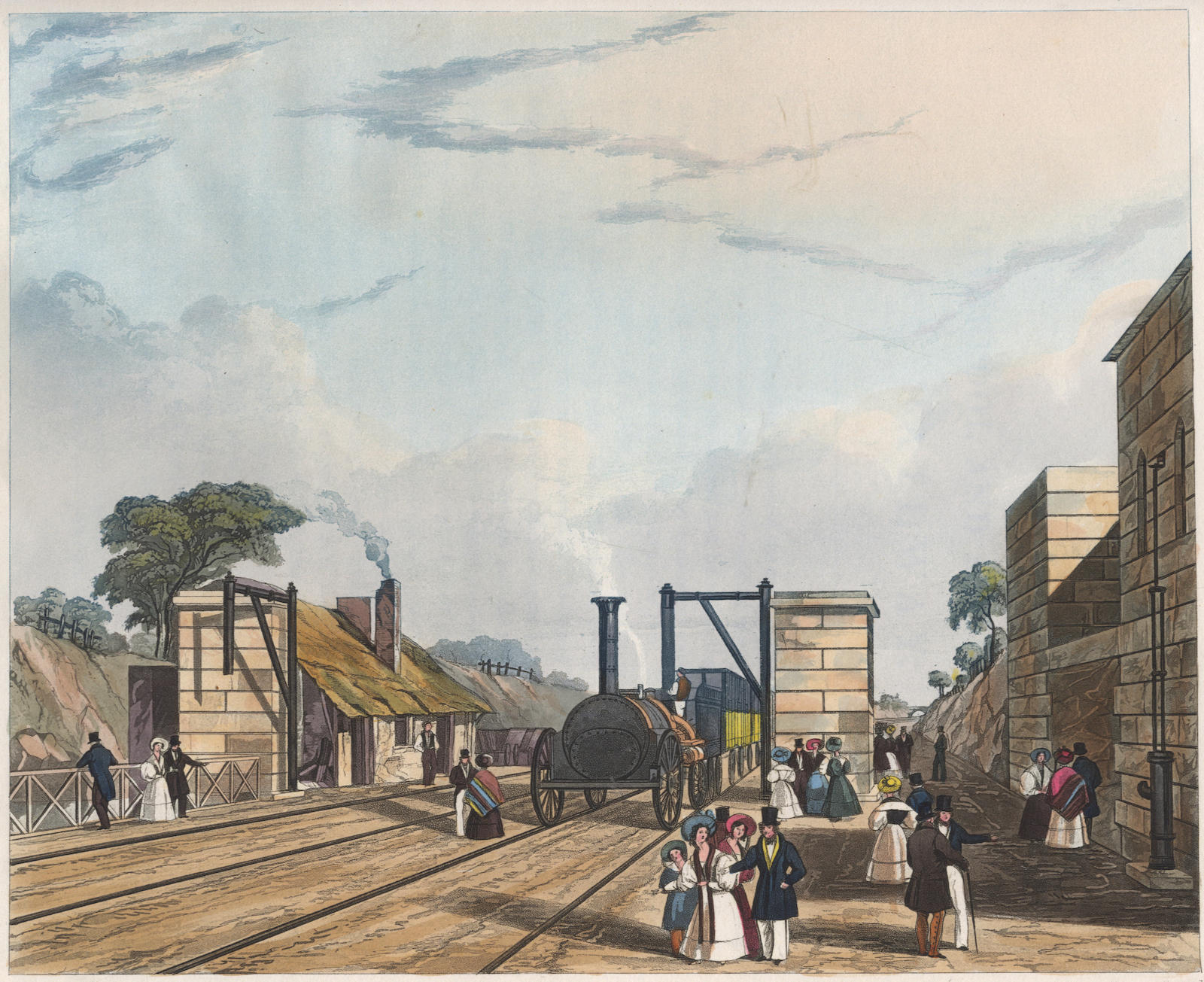 hand-coloured aquatint plate from Drawing Made on the Spot